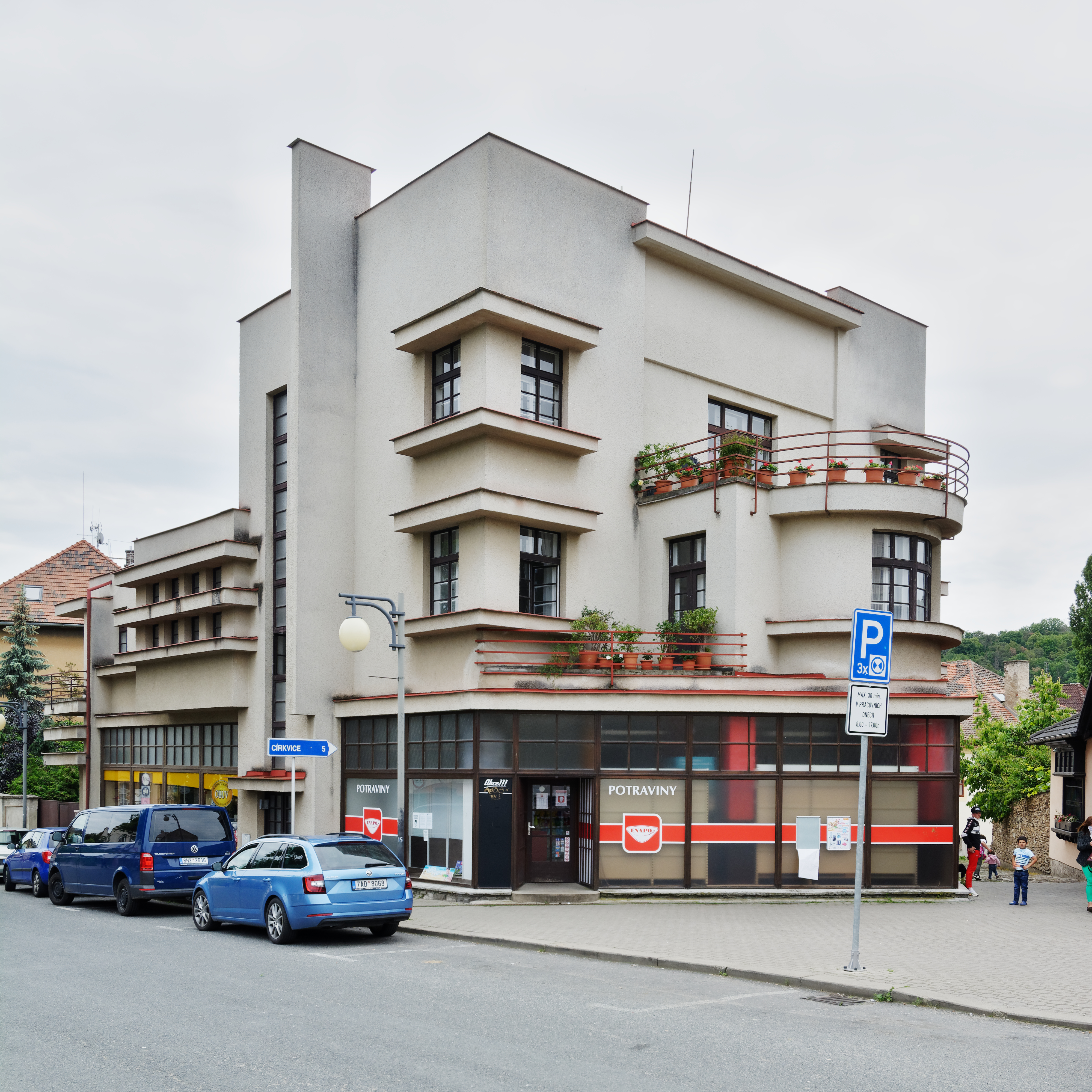 Josef Kozlík Department Store and Tenement House, Kutná Hora-Vnitřní Město, No. 413, Sokolská 12. Architect Rudolf Ryšán, built 1927–1929.